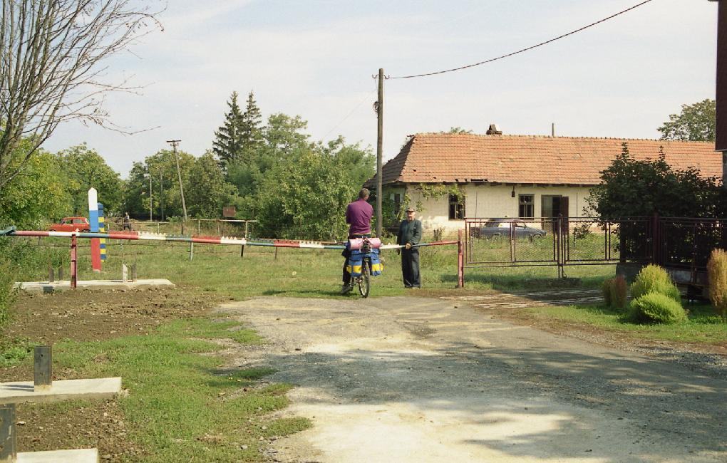 The border between Veľké Slemence, Slovakia and Mali Selmenci (Малі Селменці), Ukraine, as seen from Veľké Slemence